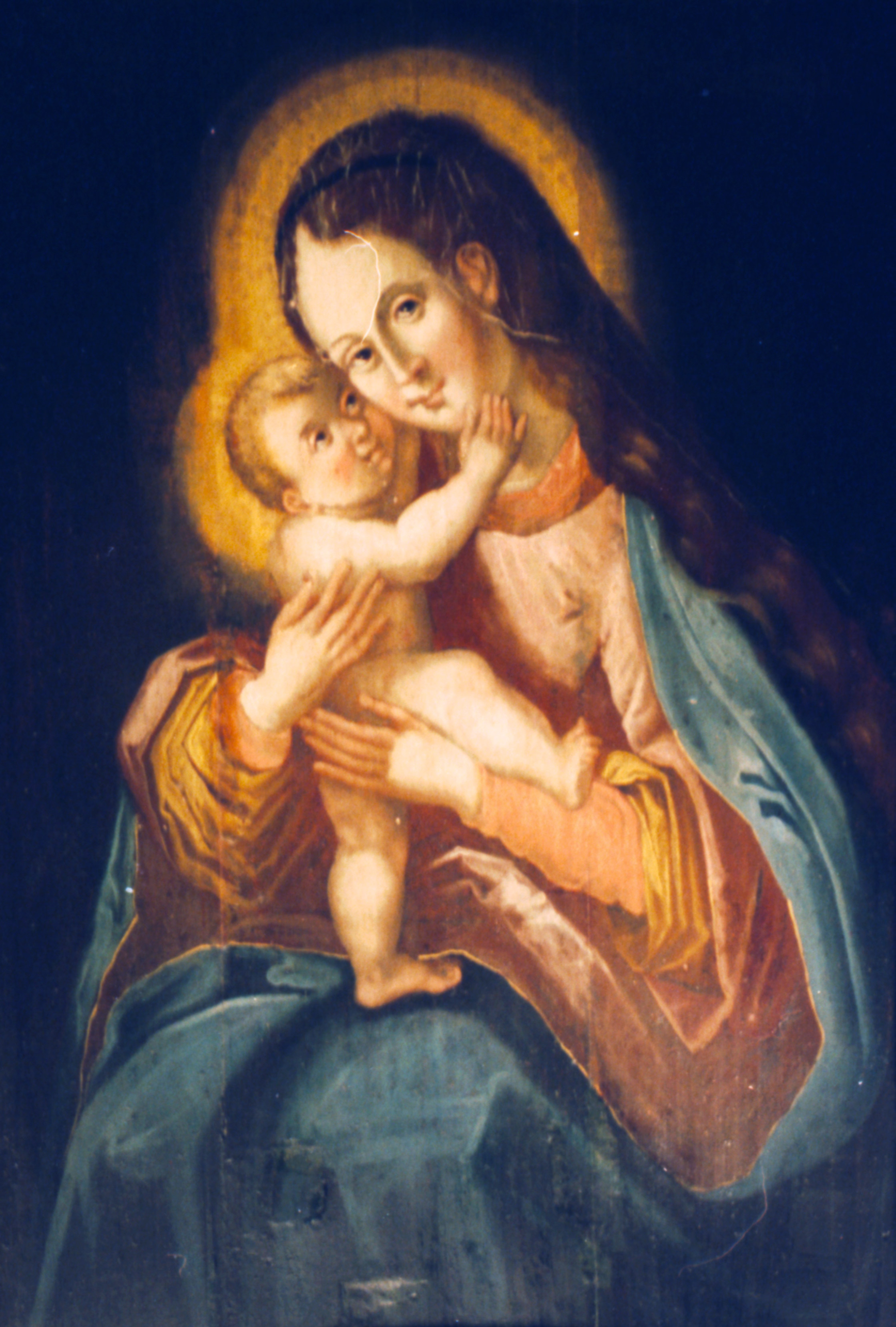 Picture above the high altar of the Most Holy Trinity Church in Fulnek, Czechia